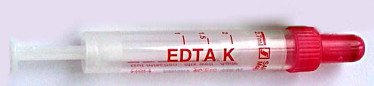 Vial of EDTA.